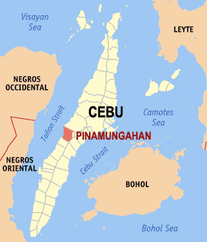 Map of Cebu showing the location of Pinamungahan